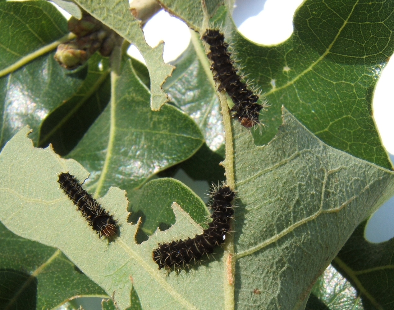 Antheraea pernyi 1st instar caterpillars feeding on Quercus (oak). Reared and picture by Shawn Hanrahan.